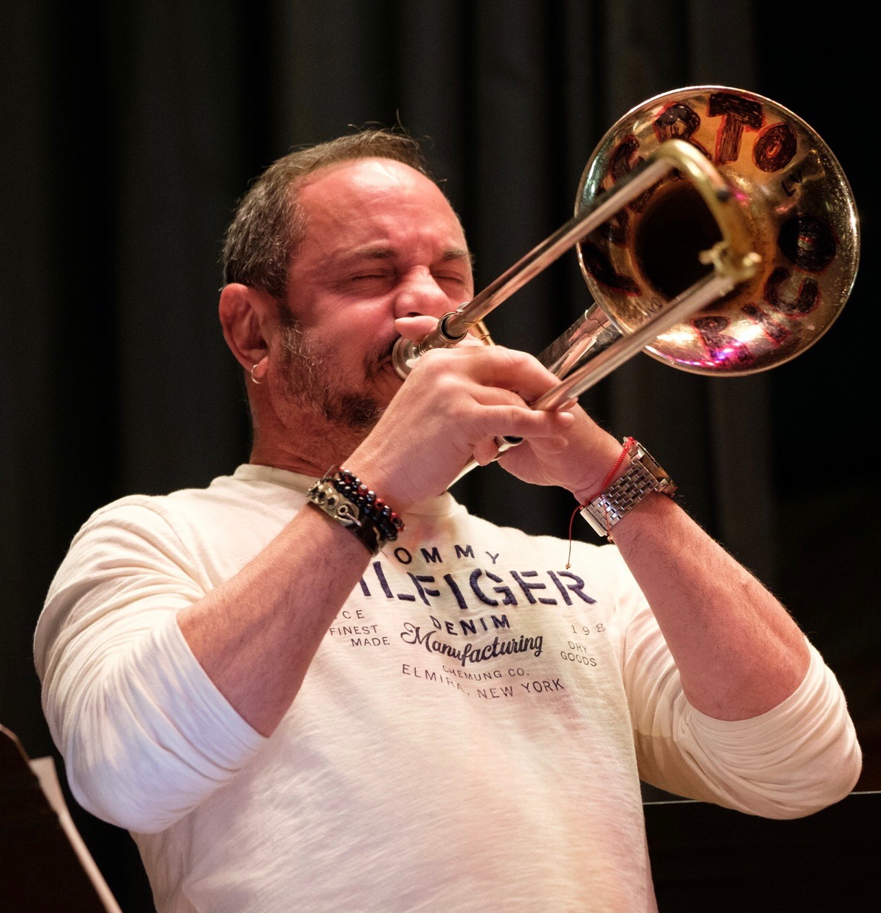 Ozzie Melendez playing trombone New York, New York 2018.